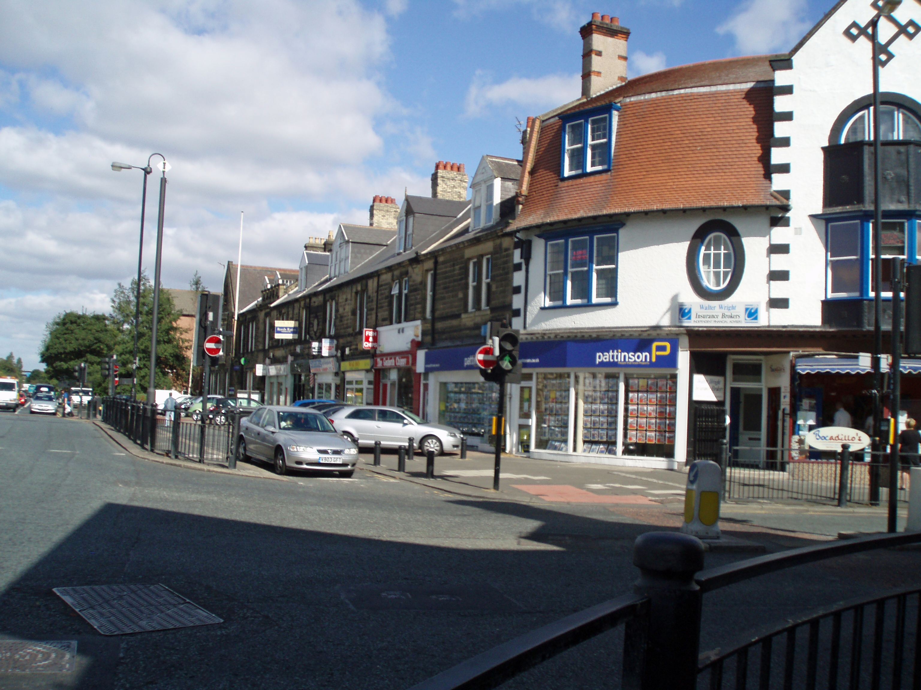 This is a view of Gosforth High Street, Newcastle upon Tyne, England. The image shows the old fire station and the shops that occupy the building.